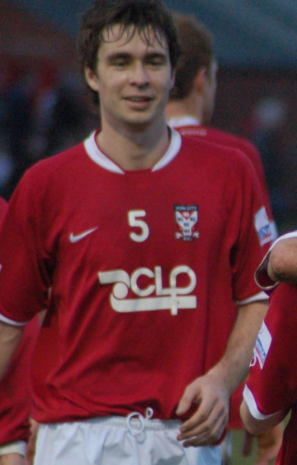 David McGurk playing for York City against Weymouth at the Bootham Crescent, York on 17 February 2007